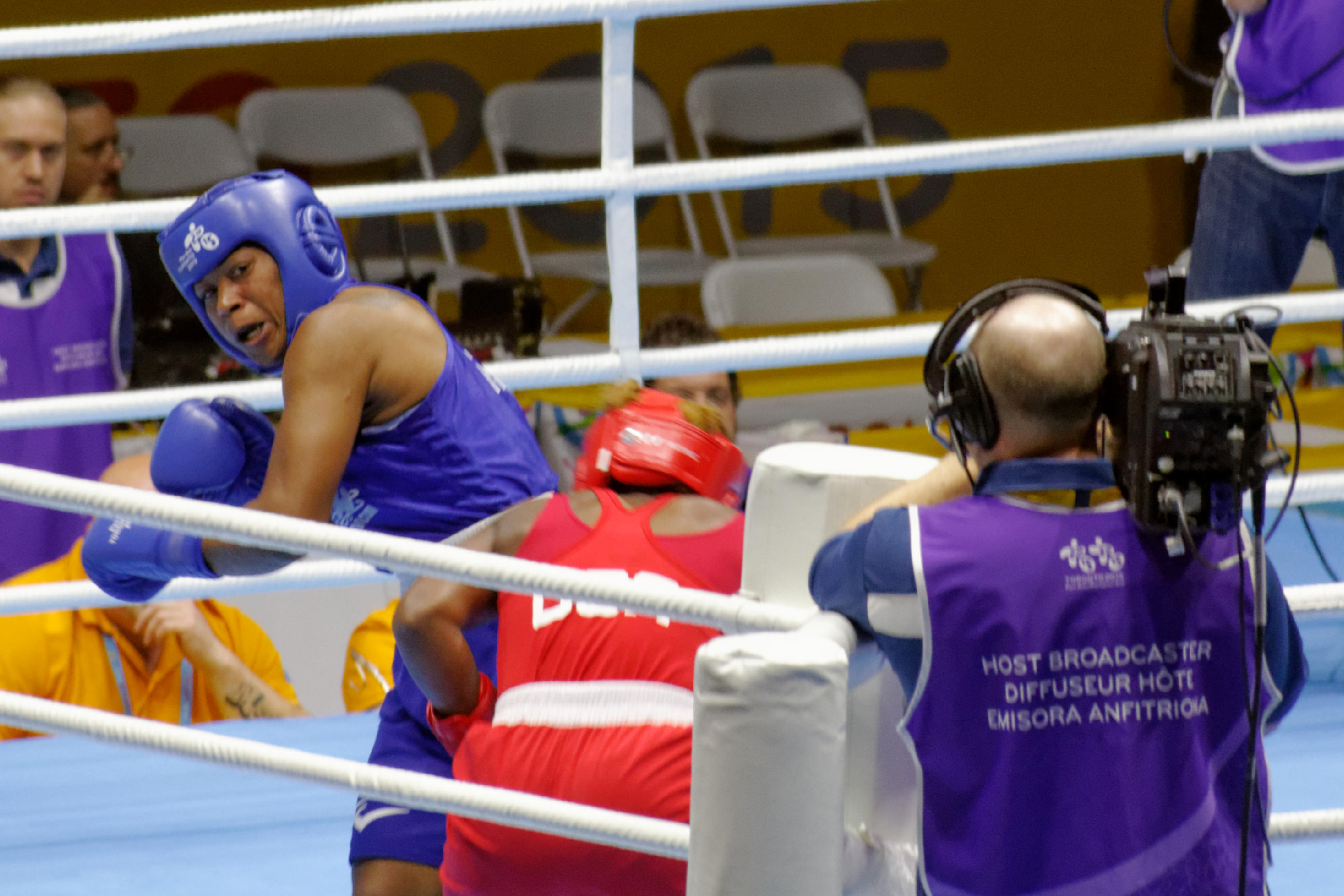 Pan Am 2015 Women's Middle Weight 69-75 Kg Boxing Finals